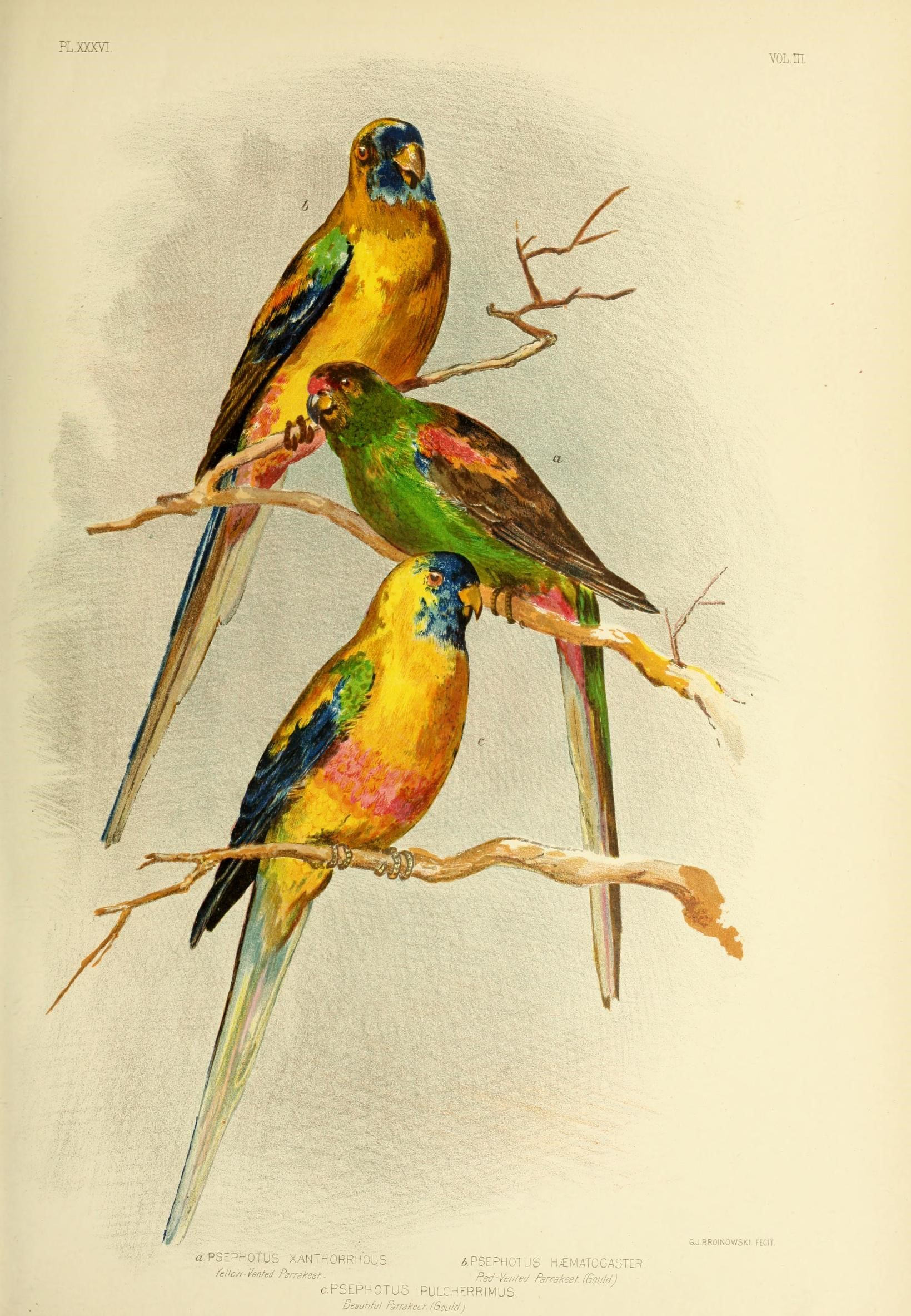 PL XXXVI voL.m. . GJBROiNOWSKI FECIT. a.PSEPHOTUS XANTH0RRH0U5. &PSEPHOTUS H/EMATOGASTER. Yellow-Vented Parrakeet . Red -Vented Parrakeet (Gould) c.PSEPHOTUS PULCHERRIMUS. ( Beautiful Parrakeet (Gould.)